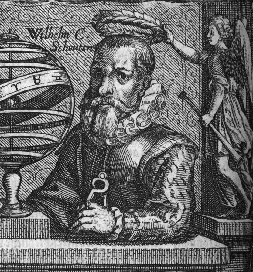 Portrait of Willem Cornelisz. Schouten, Dutch explorer.